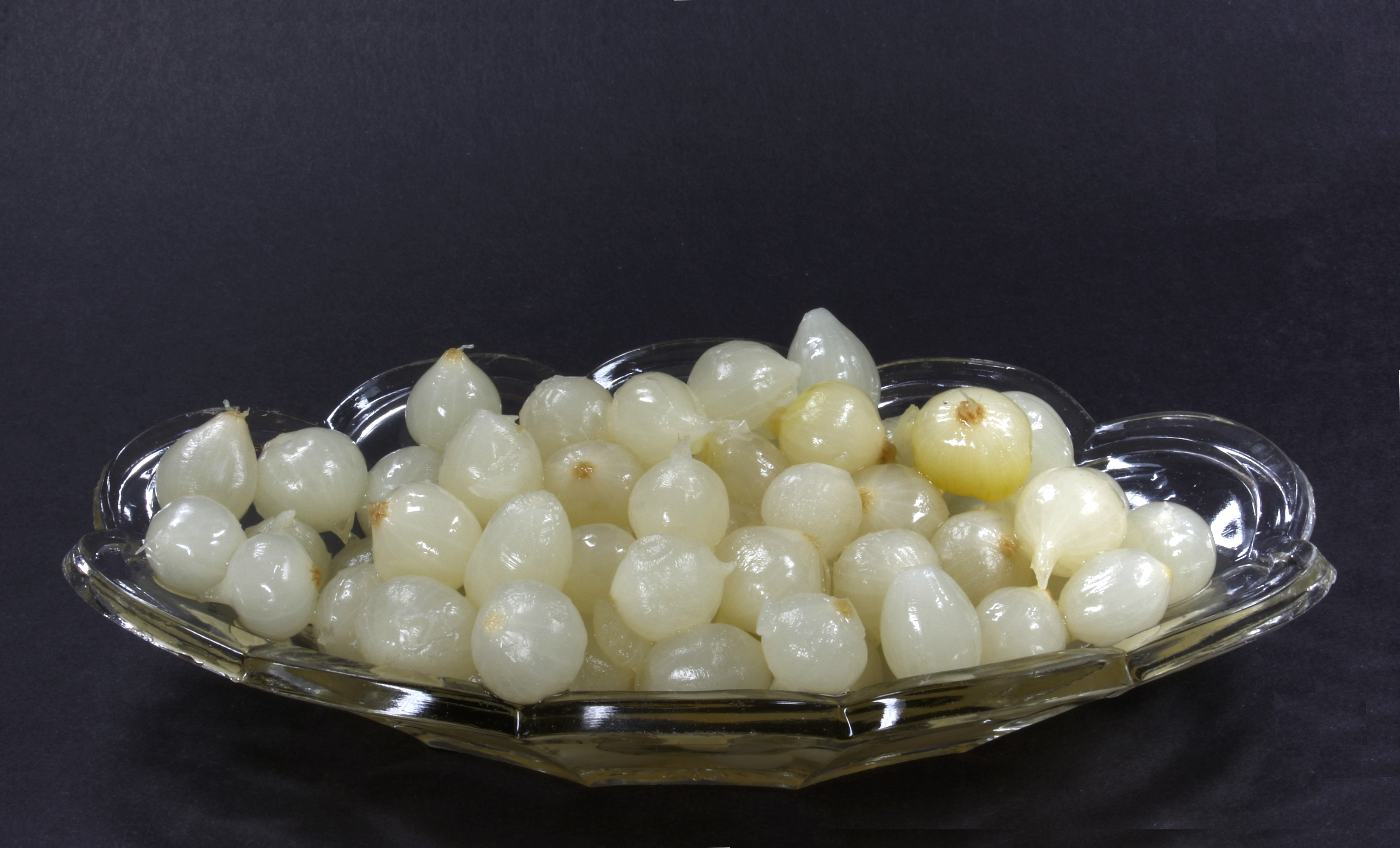 Pearl pickling onions